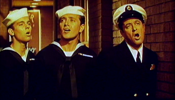 Screenshot from the trailer for the 1955 film, "Hit The Deck", showing Russ Tamblyn, Vic Damone and Tony Martin.